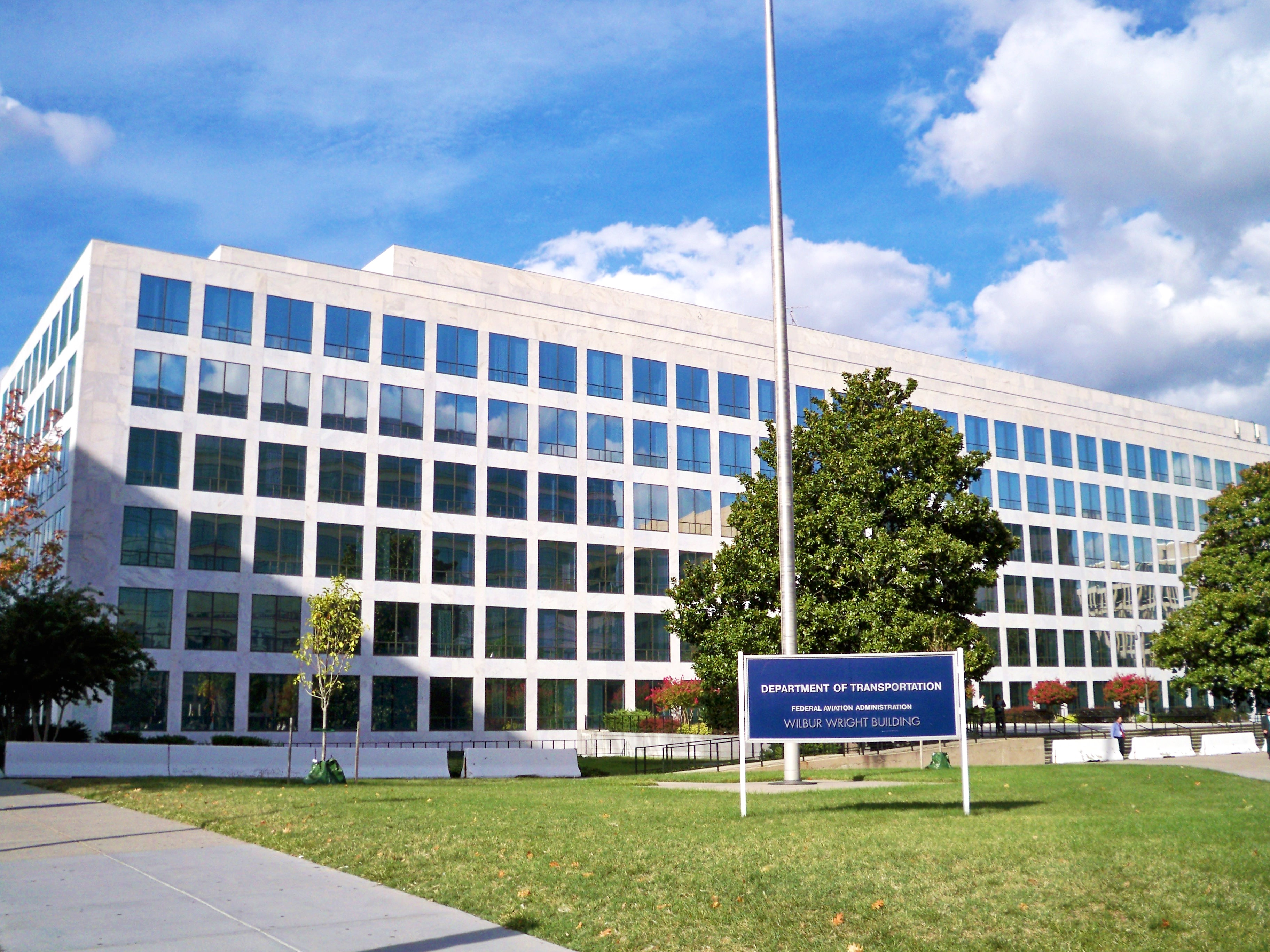 The Wilbur Wright Federal Building, also know as Federal Office Building 10B, is located at 600 Independence Avenue SW, in Washington, D.C. It is one of two buildings used as the headquarters of the Federal Aviation Administration; the other is the Orville Wright Federal Building.